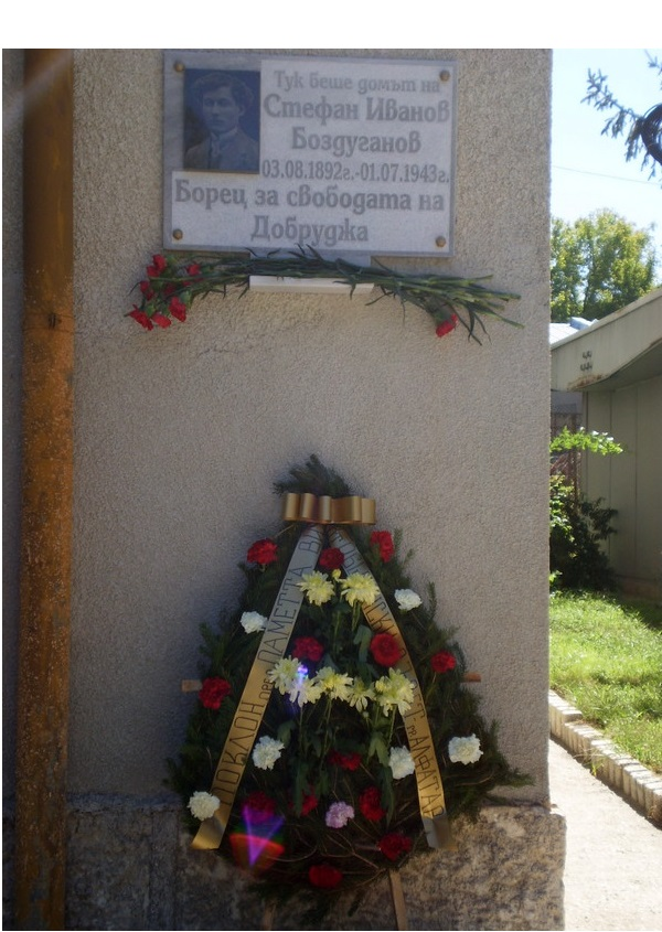 А memorial for Stefan Bozduganov in Alfatar